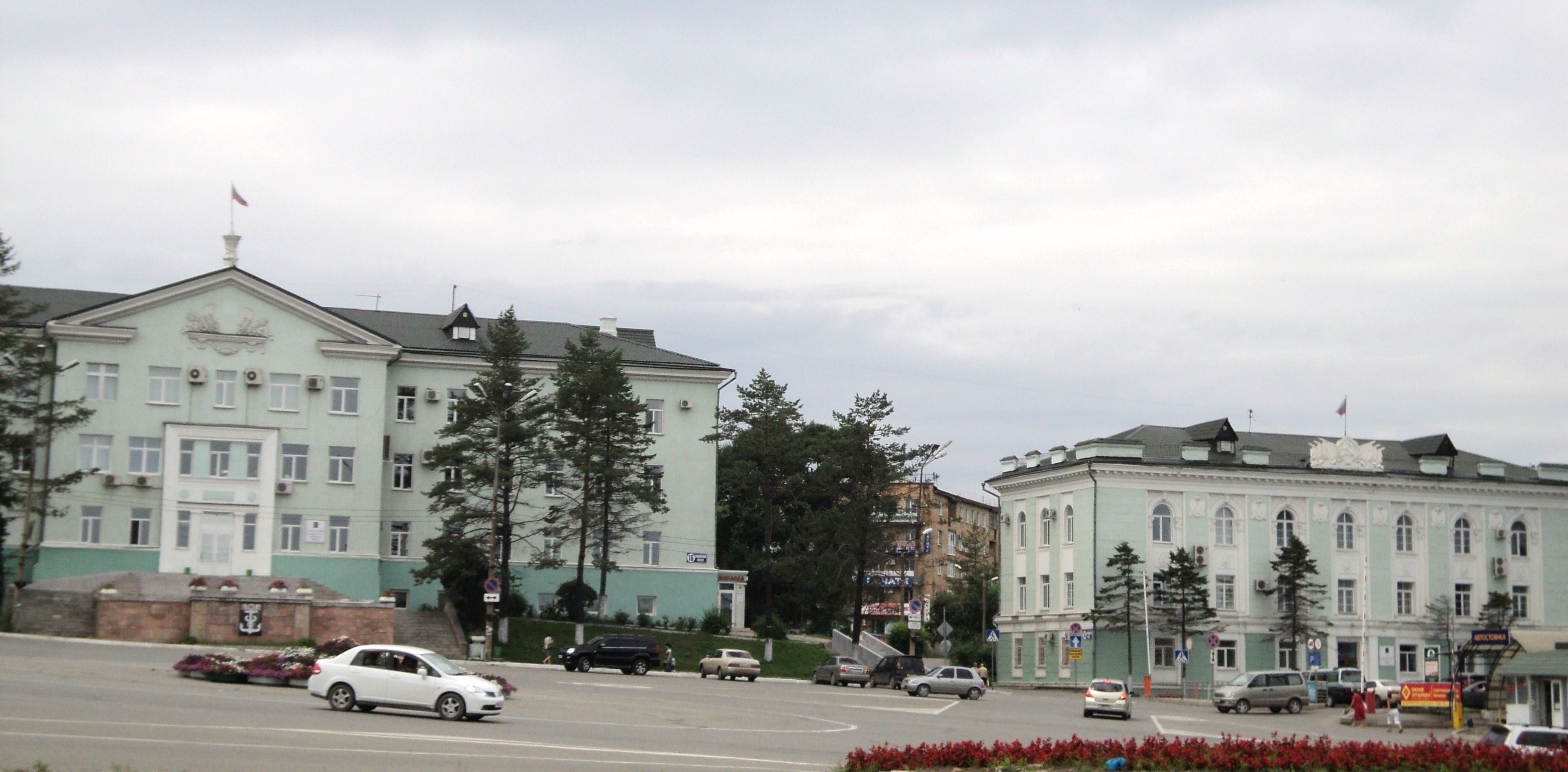 Buildings of Administration & Duma in Nakhodka